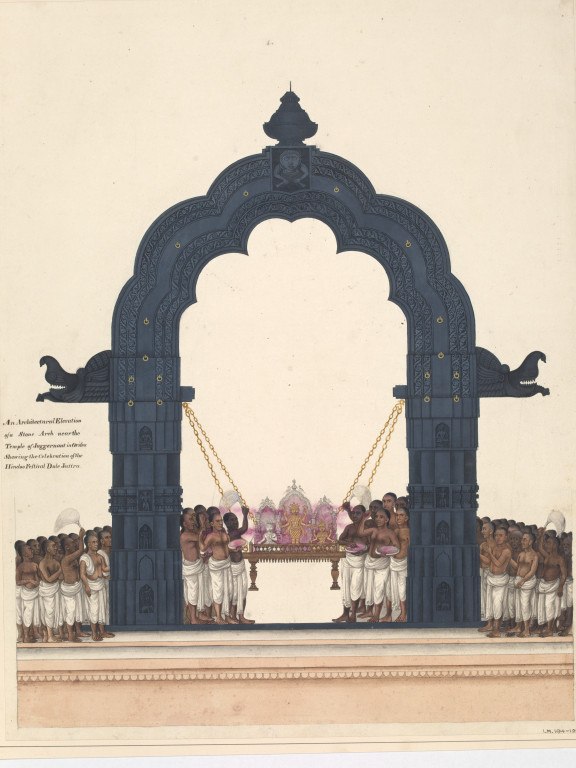 Elevation of the black stone arch near the Temple of Jagannatha, Puri.